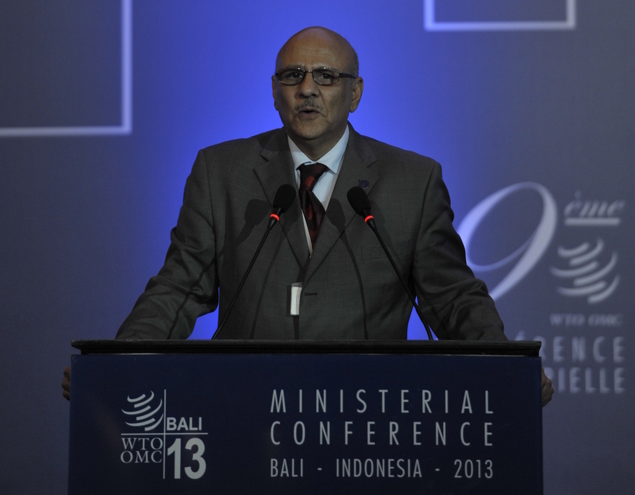 Saadaldeen Talib speaking on day 2 of the WTO's Ministerial Conference, in Bali on December 3, 2013